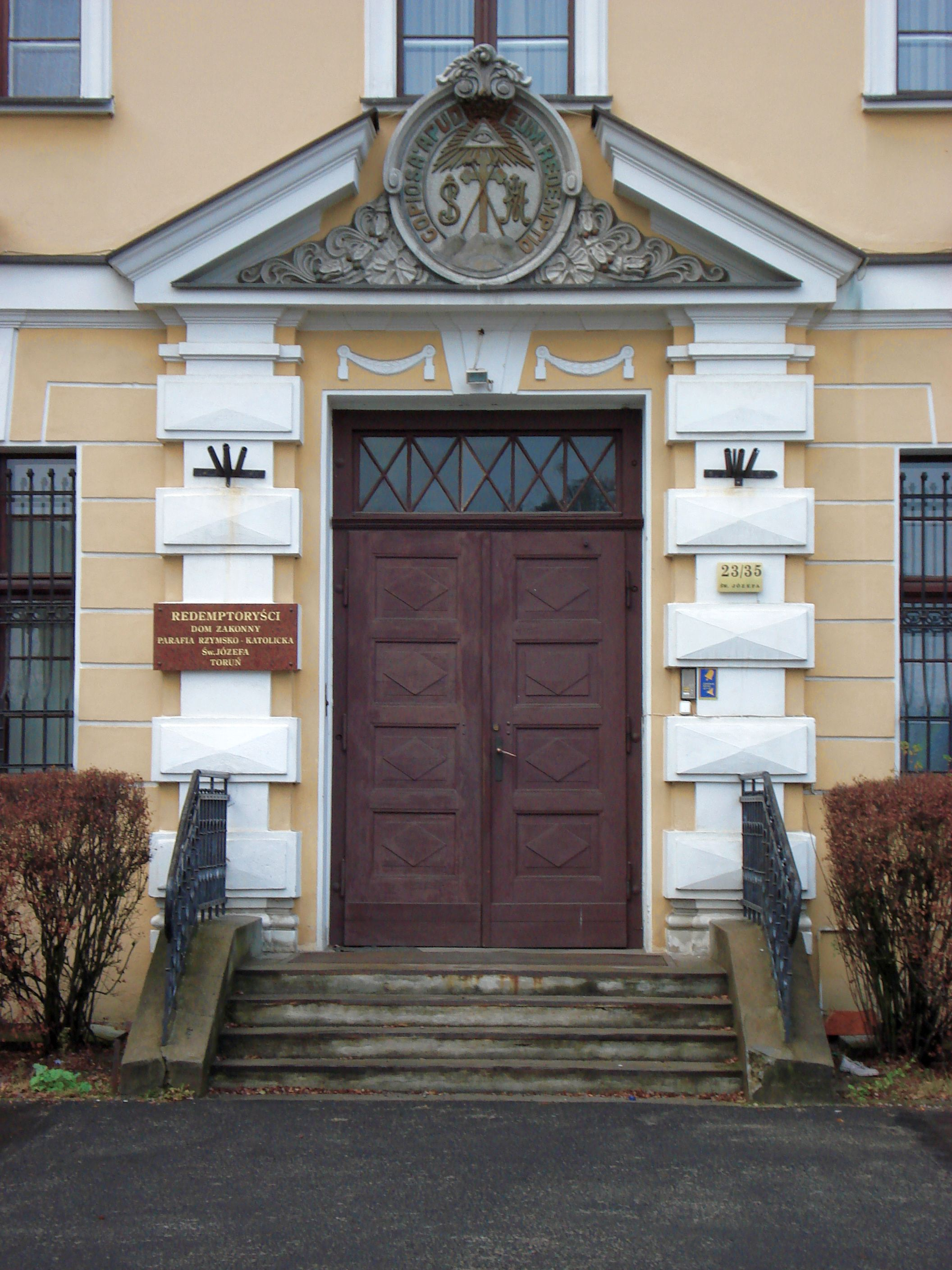 Main entrance to the Redemptorists monastery in Toruń, by Stefan Cybichowski